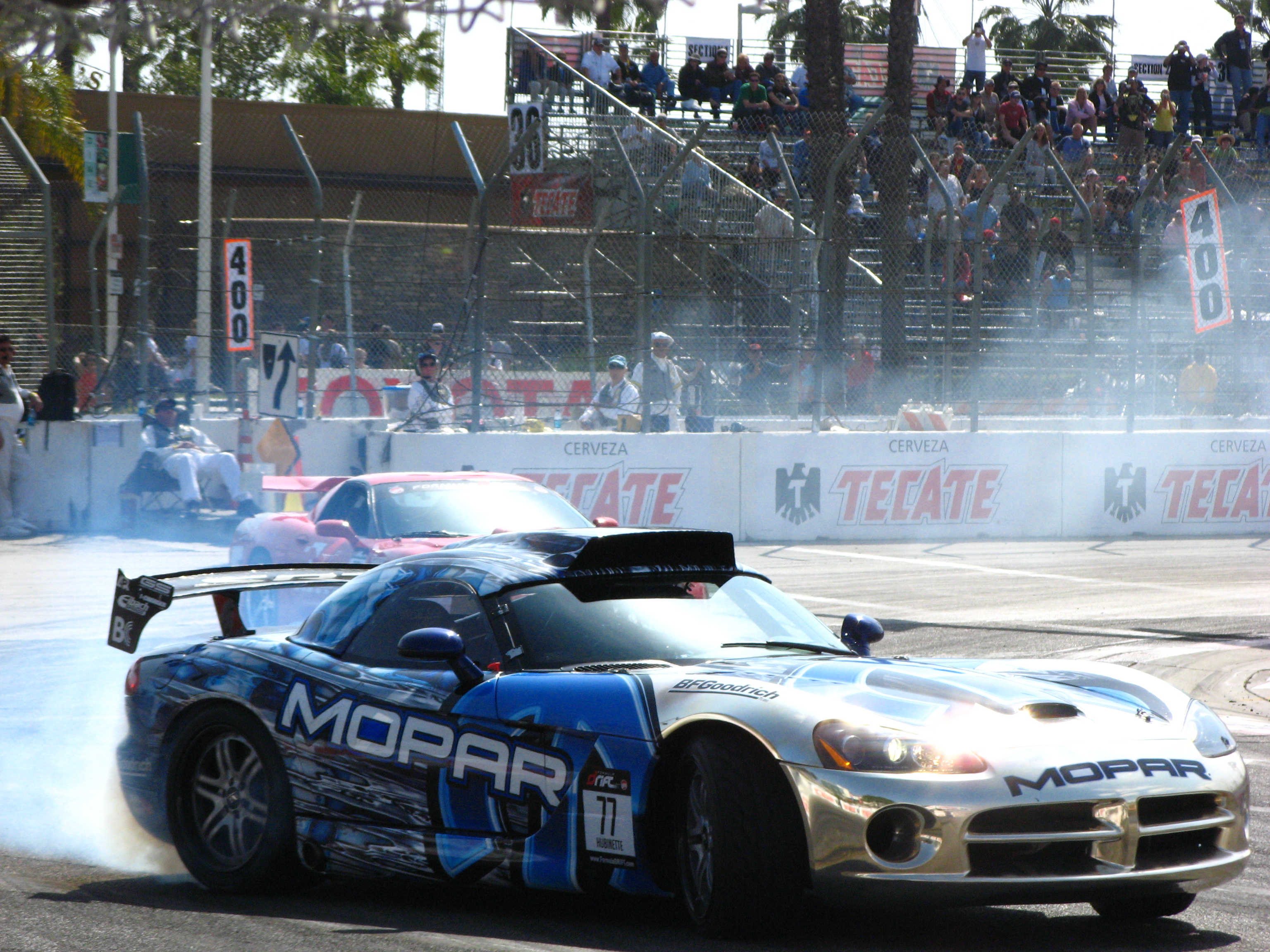 Formula Drift competitors at the 2008 Gran Prix of Long Beach